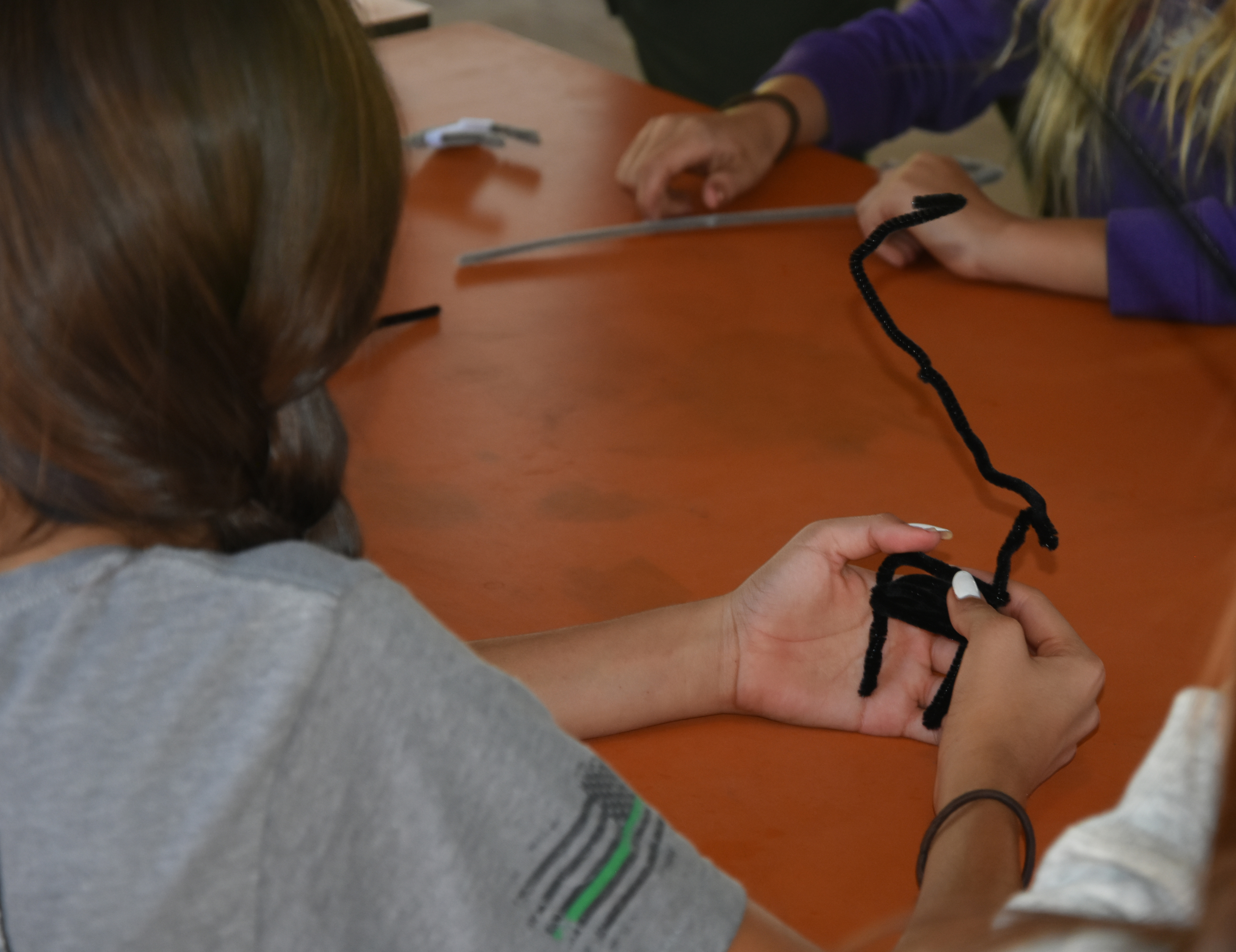 Campers recreate split-twig figurines out of pipe cleaners. Williams district. 06-27-18. DSC2990. Photo by Adriana Petrungaro. Credit the U.S. Forest Service, Southwestern Region, Kaibab National Forest.